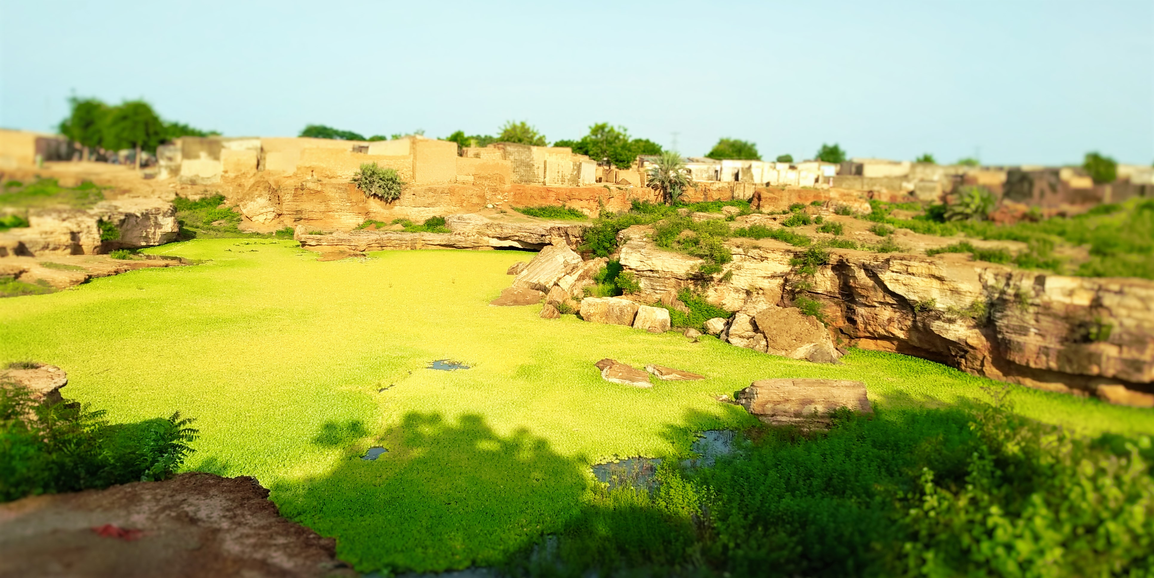 This is an image with the theme "Play" from: Nigeria